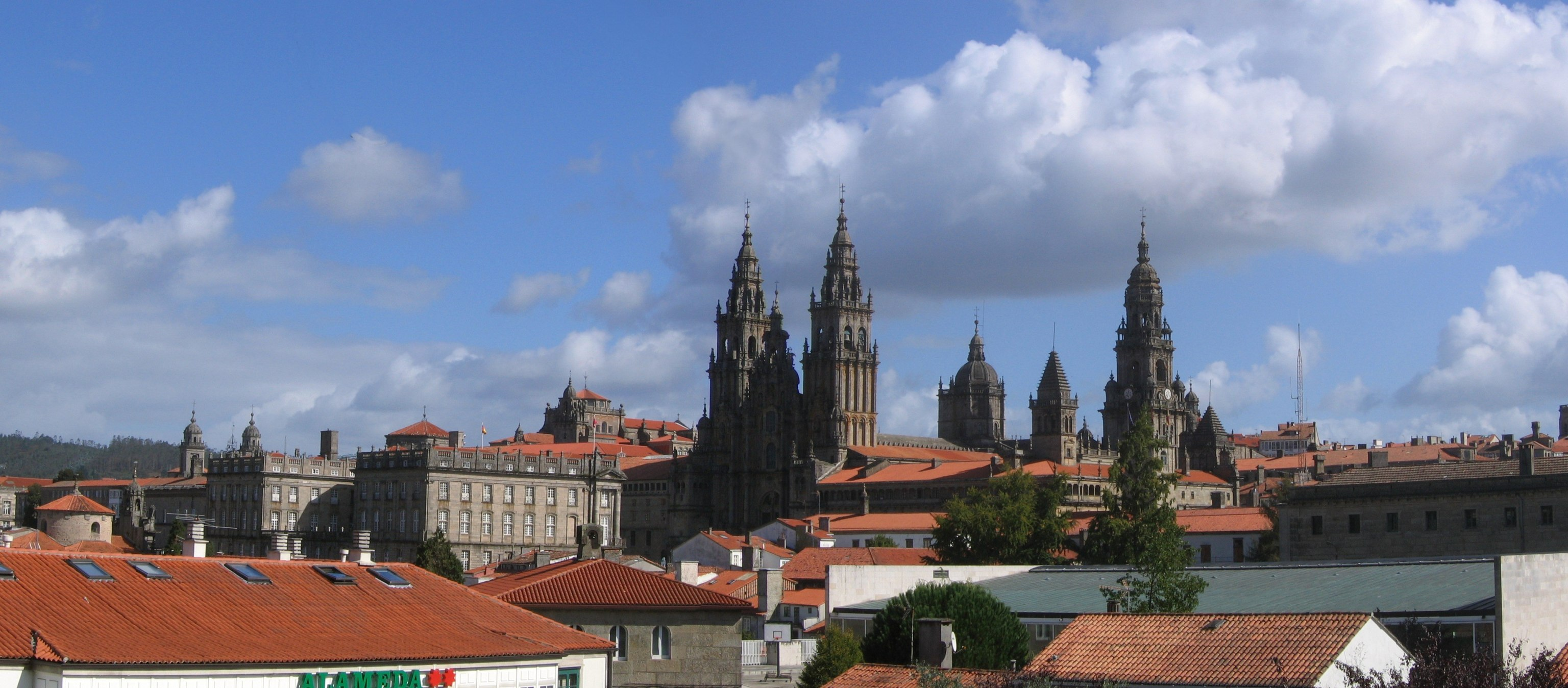 Altstadt von Santiago, selbst fotografiert im Sept. 2005, GNU-FDL Old city of Santiago, picture taken by myself in Sept. 2005, GNU-FDL